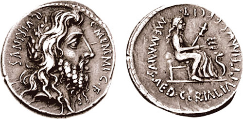 C. Memmius C. f. 56 BC. AR Denarius (3.93 gm, 7h). Rome mint. QVIRINVS behind, C. MEMMI. C. F before, laureate, long-haired, and bearded head of Quirinus (Romulus) right / MEMMIVS. AED. CERIALIA. PREIMVS. FECIT, Ceres seated right, holding torch and three grain-ears; serpent at her feet. Crawford 427/2; Sydenham 921; Kestner 3463; BMCRR Rome 3941; CNR Memmia 19; Memmia 9. Good VF, darkly toned.